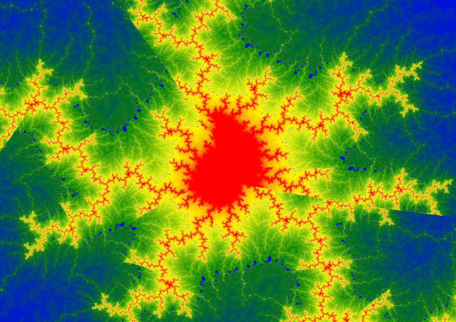 The Breaking of space, from non integer Multibrots